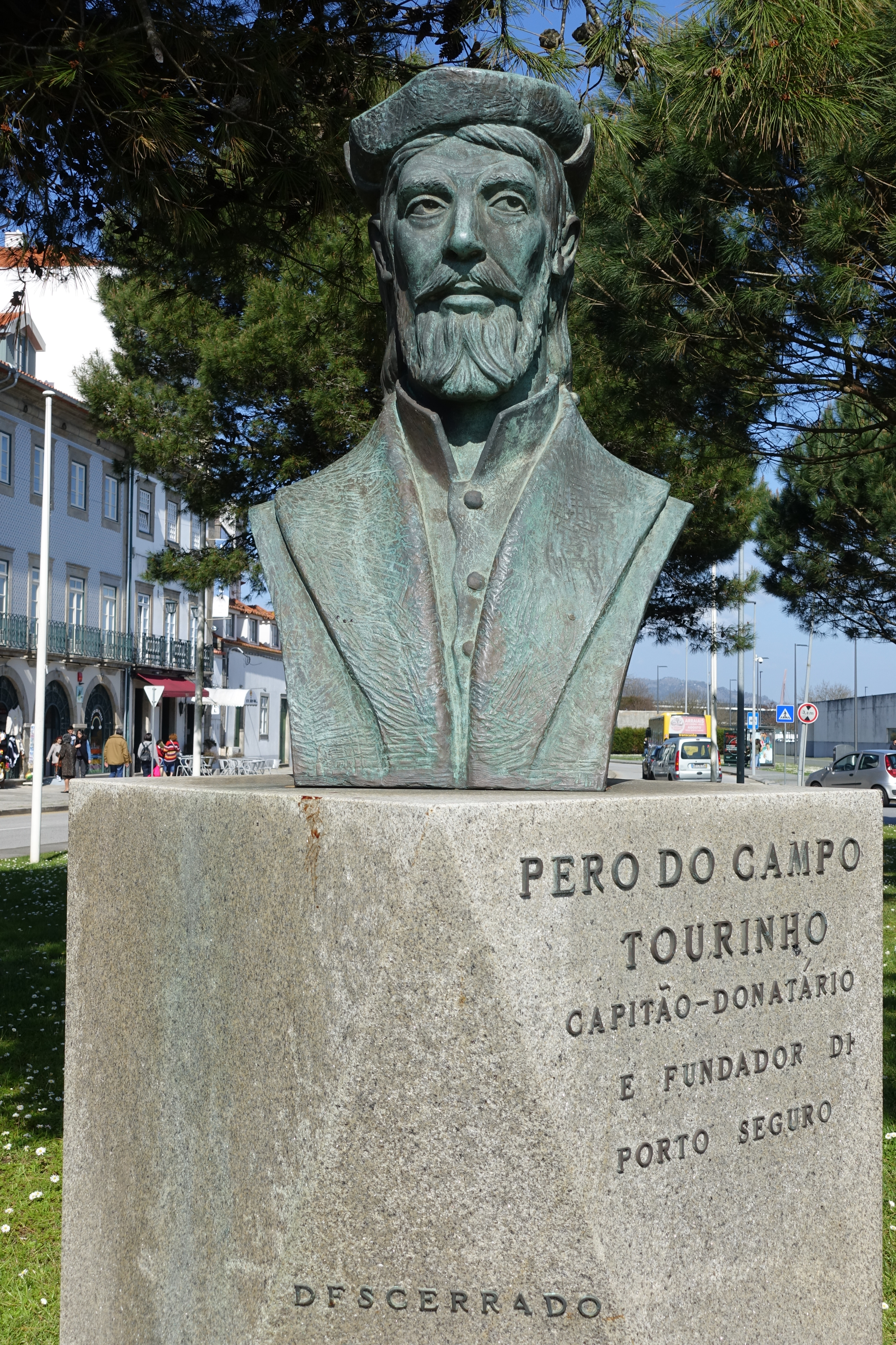 Bust in Viana do Castelo Portugal